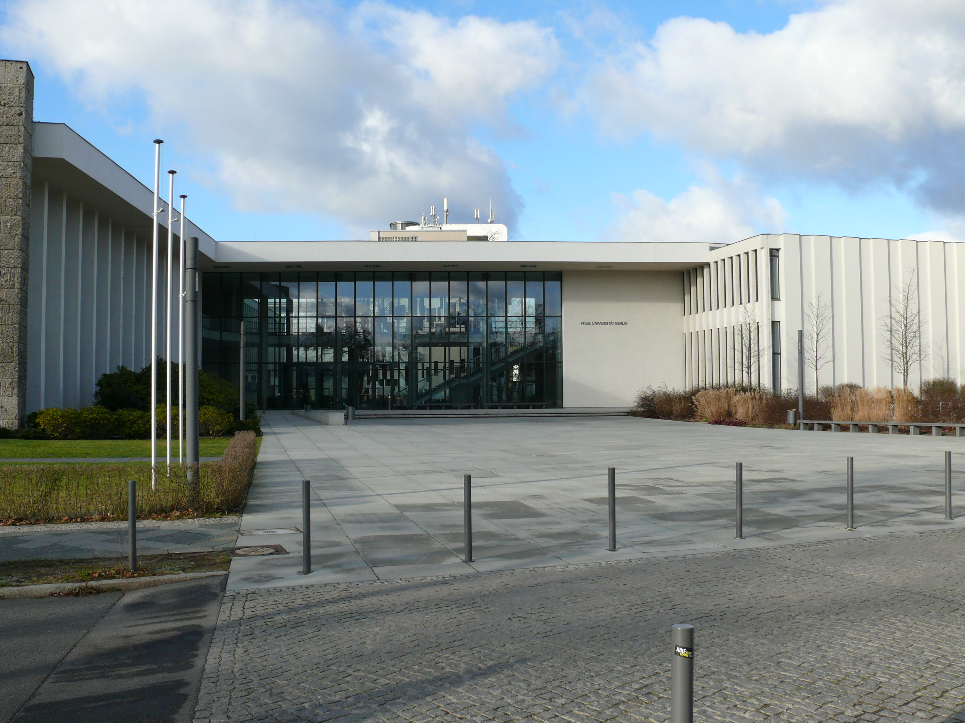 Berlin-Dahlem Boltzmannstraße Henry-Ford-Bau